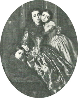 Aniela Aszpergerowa and her two daughters circa 1850